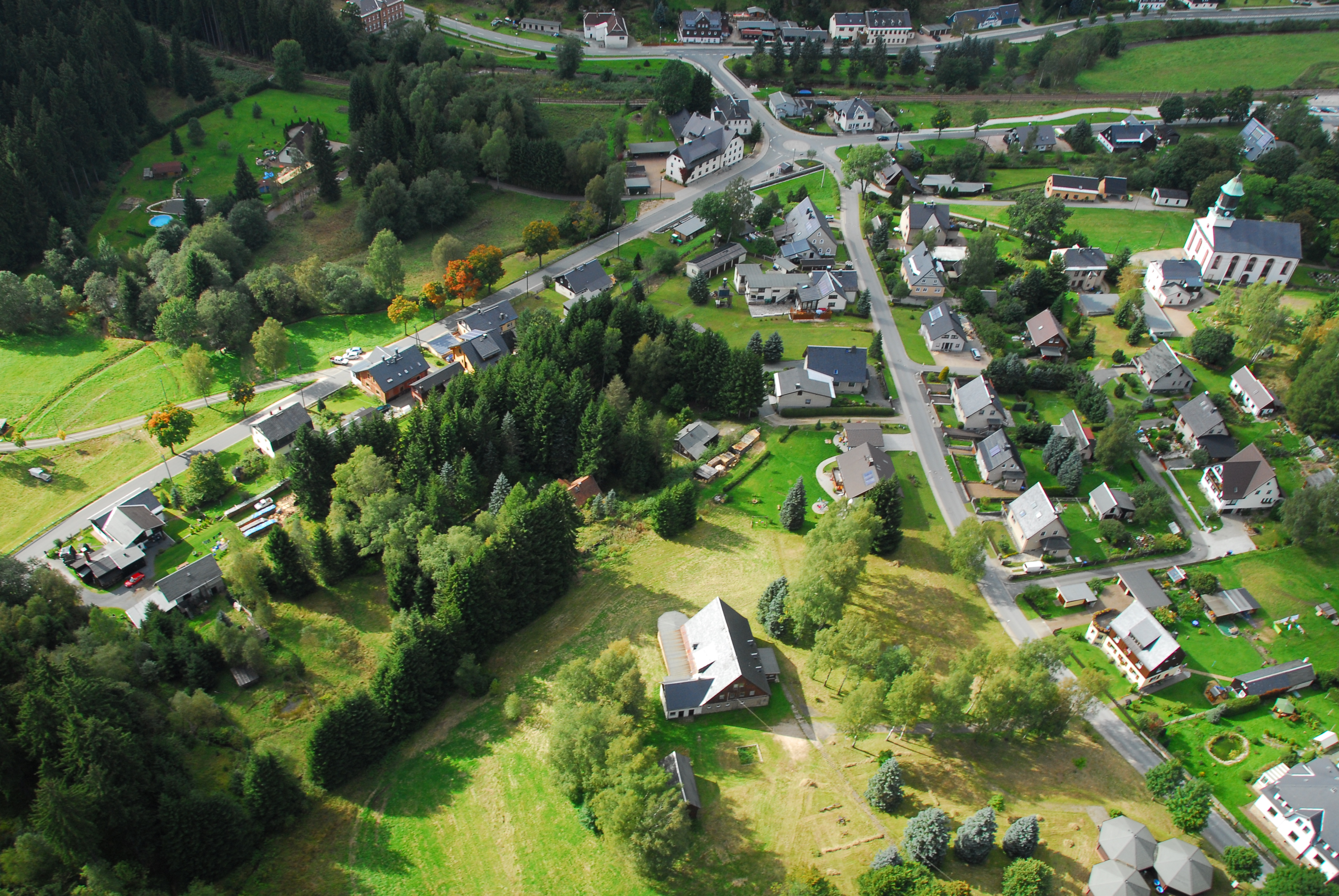 Morgenroethe-Rautenkranz center from Rautenkranz